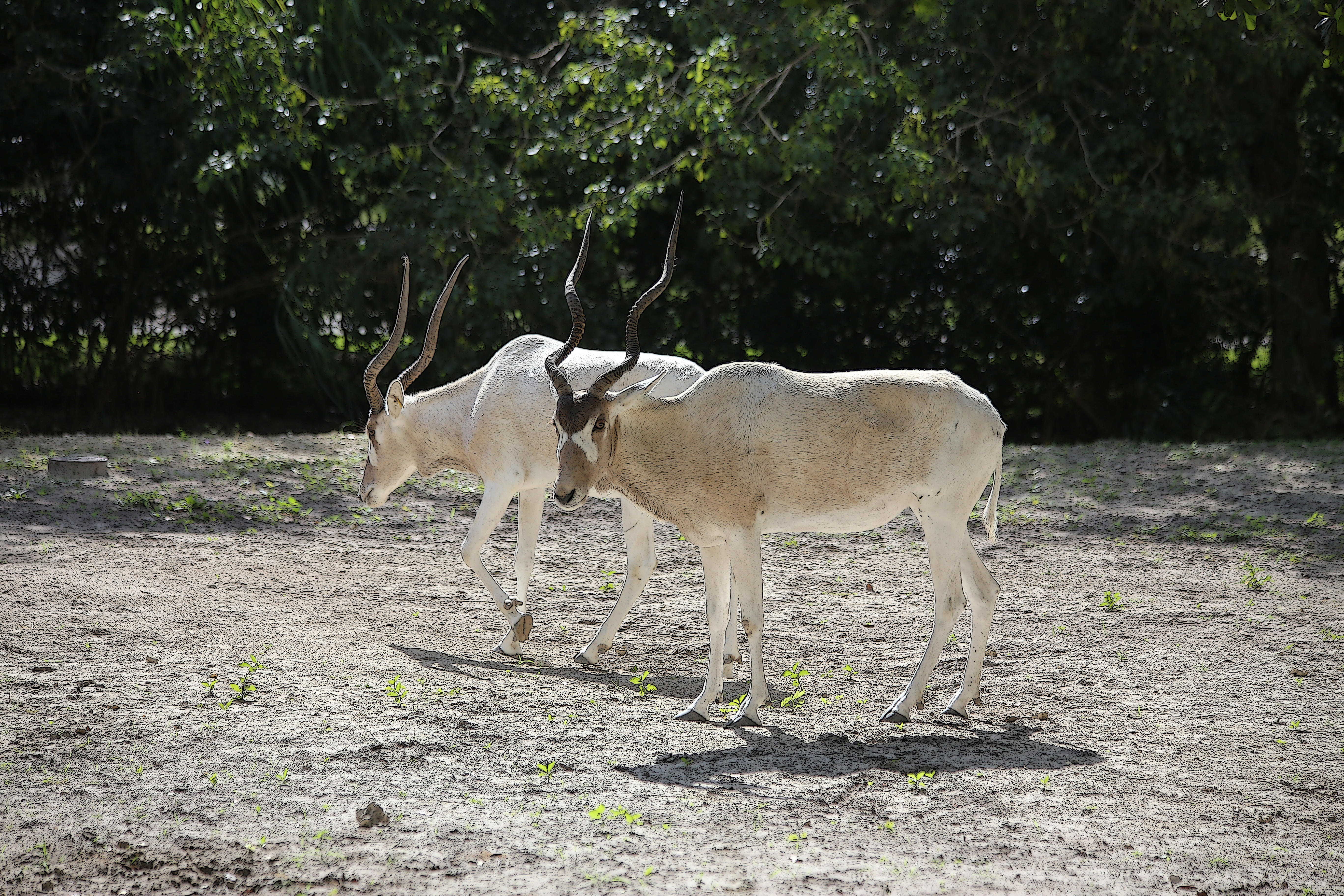 A picture of addaxes roaming around in a deserted area